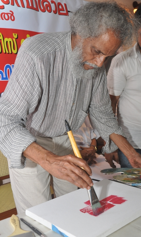 Artist, Paris viswanathan at kollam